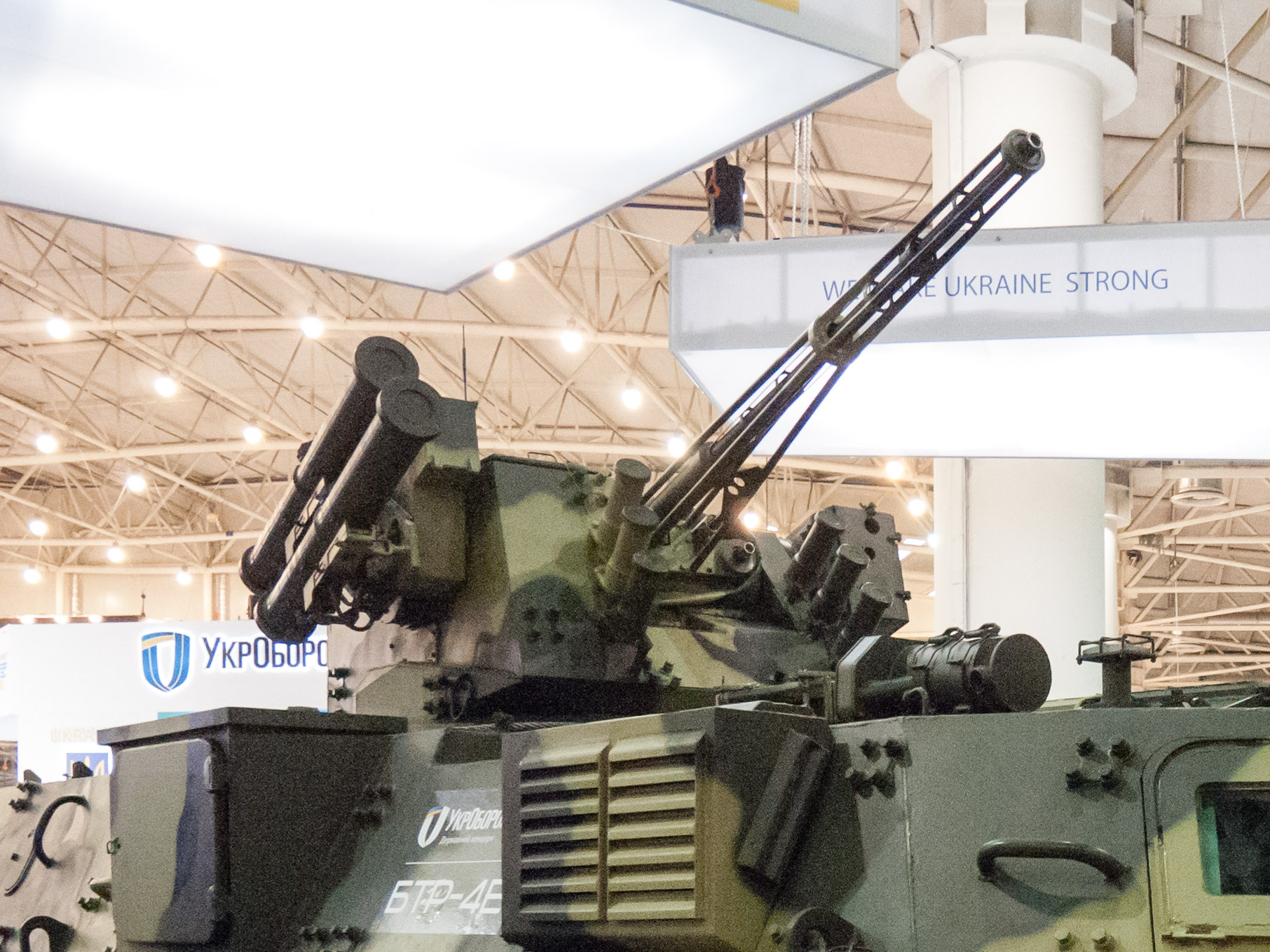 Parus fighting module (Ukraine)